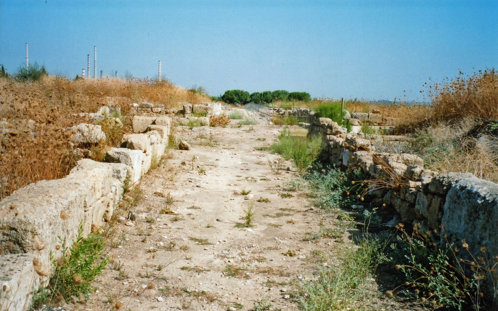 In the distance you can see the towers of the oil refinery to the north.